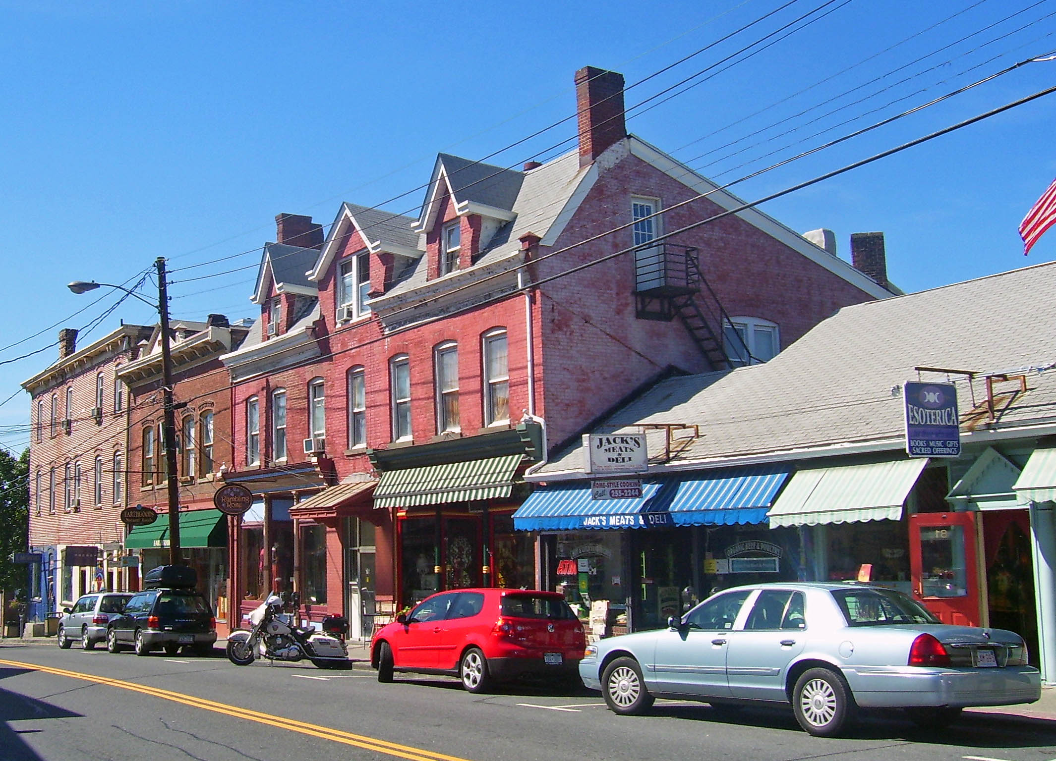 Downtown New Paltz, looking westward along Main Street (NY 32/299) in Downtown New Paltz Historic District